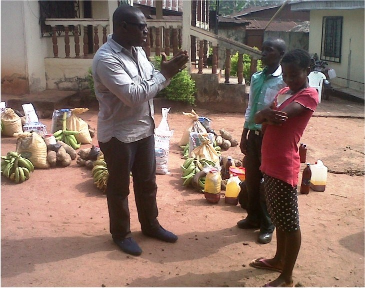 Photo of Chuma Mmeka providing counseling and nutritional support to orphans and vulnerable Nigerian children